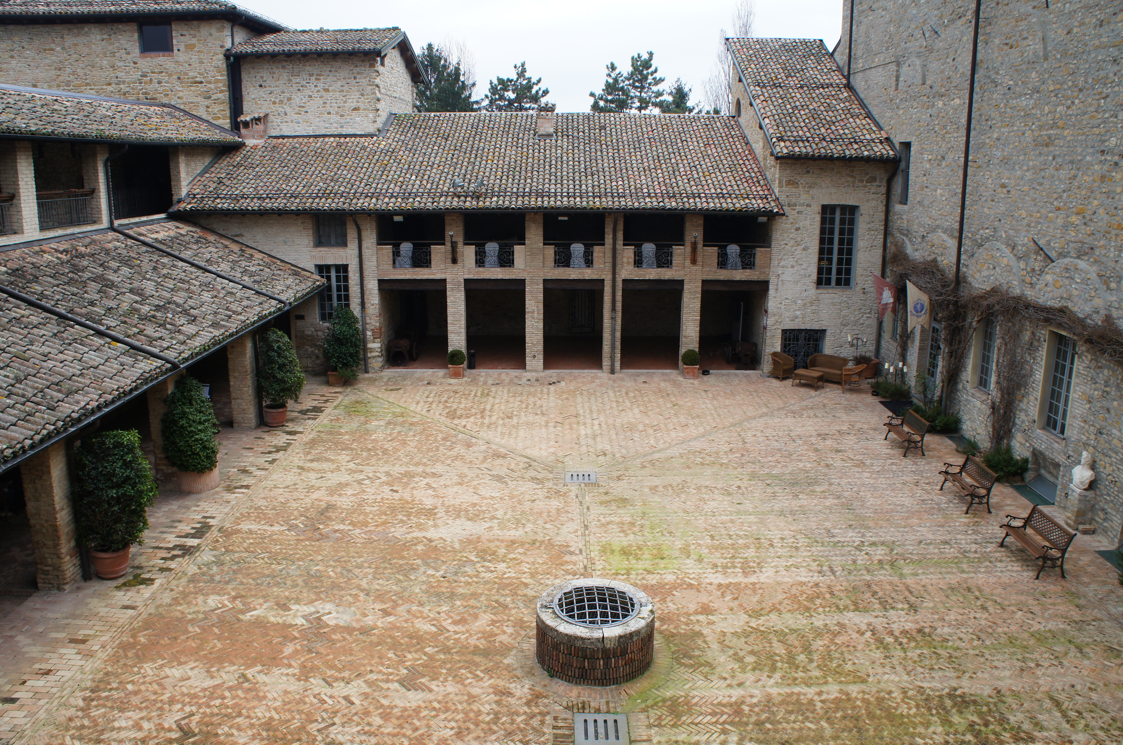 Castle of Felino